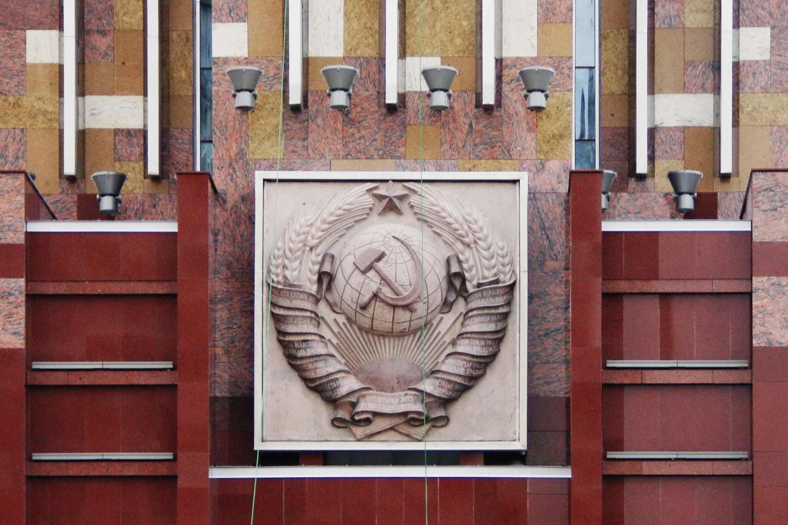 original state emblem of the Soviet Union, fragment of Worker and Kolkhoznitsa monument